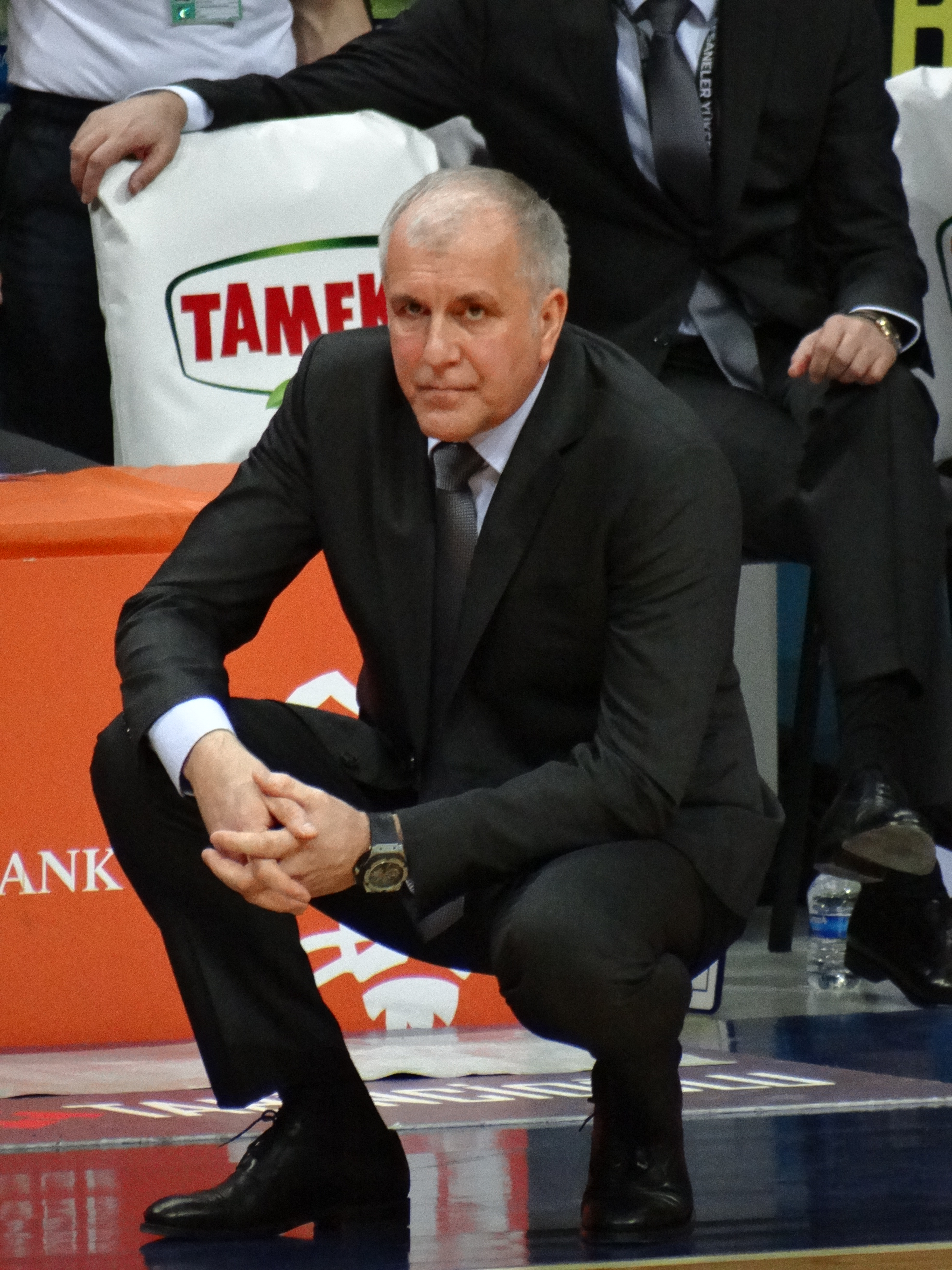 Željko Obradović Fenerbahçe men's basketball TSL 20180304